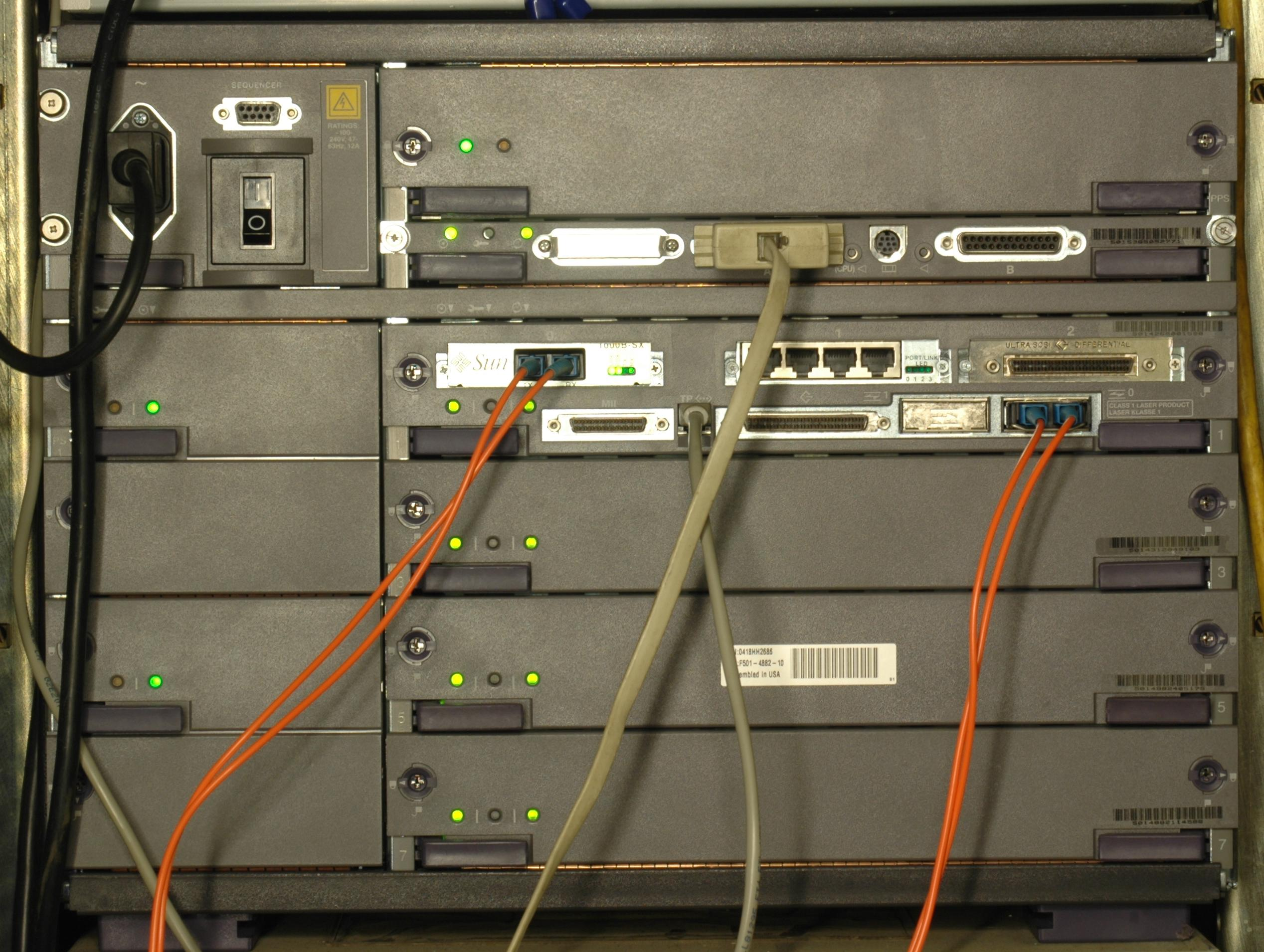 Sun E4000 midrange computer, seen from the back.